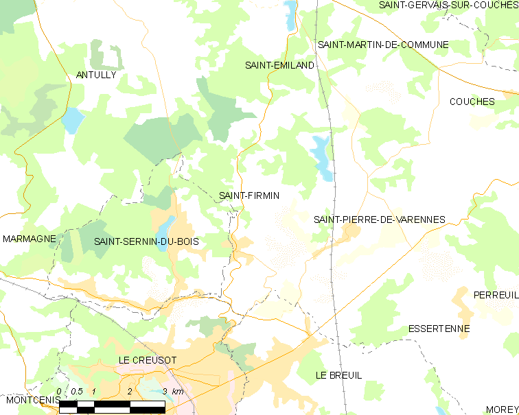 Map of French municipality